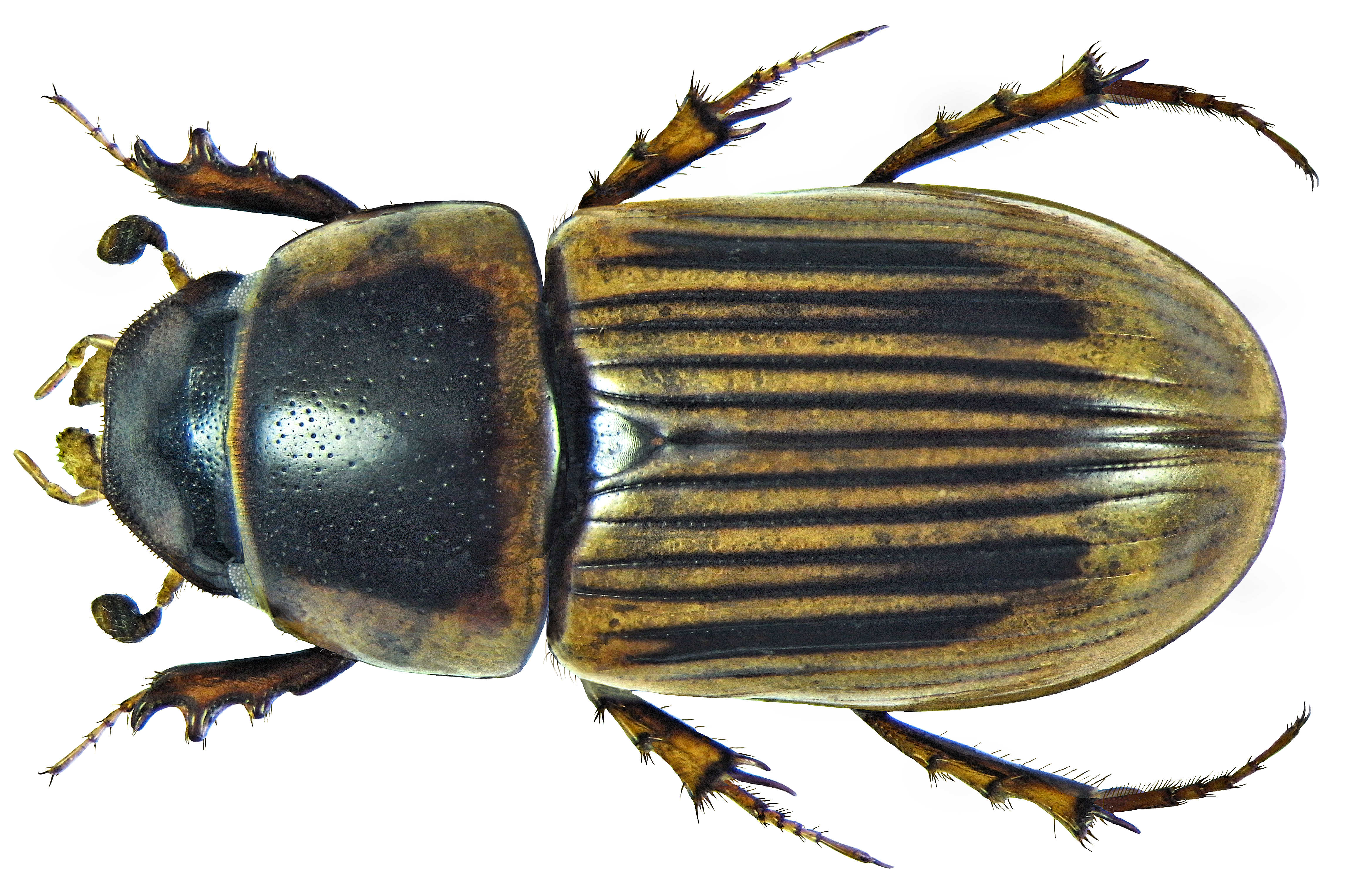 Family: Scarabaeidae Size: 7,2 mm Location: India, South Goa, Canacona, Raj Baga Beach leg. U.Schmidt, 26.XI.2010; det. Bellmann, 2011 Photo: U.Schmidt, 2012